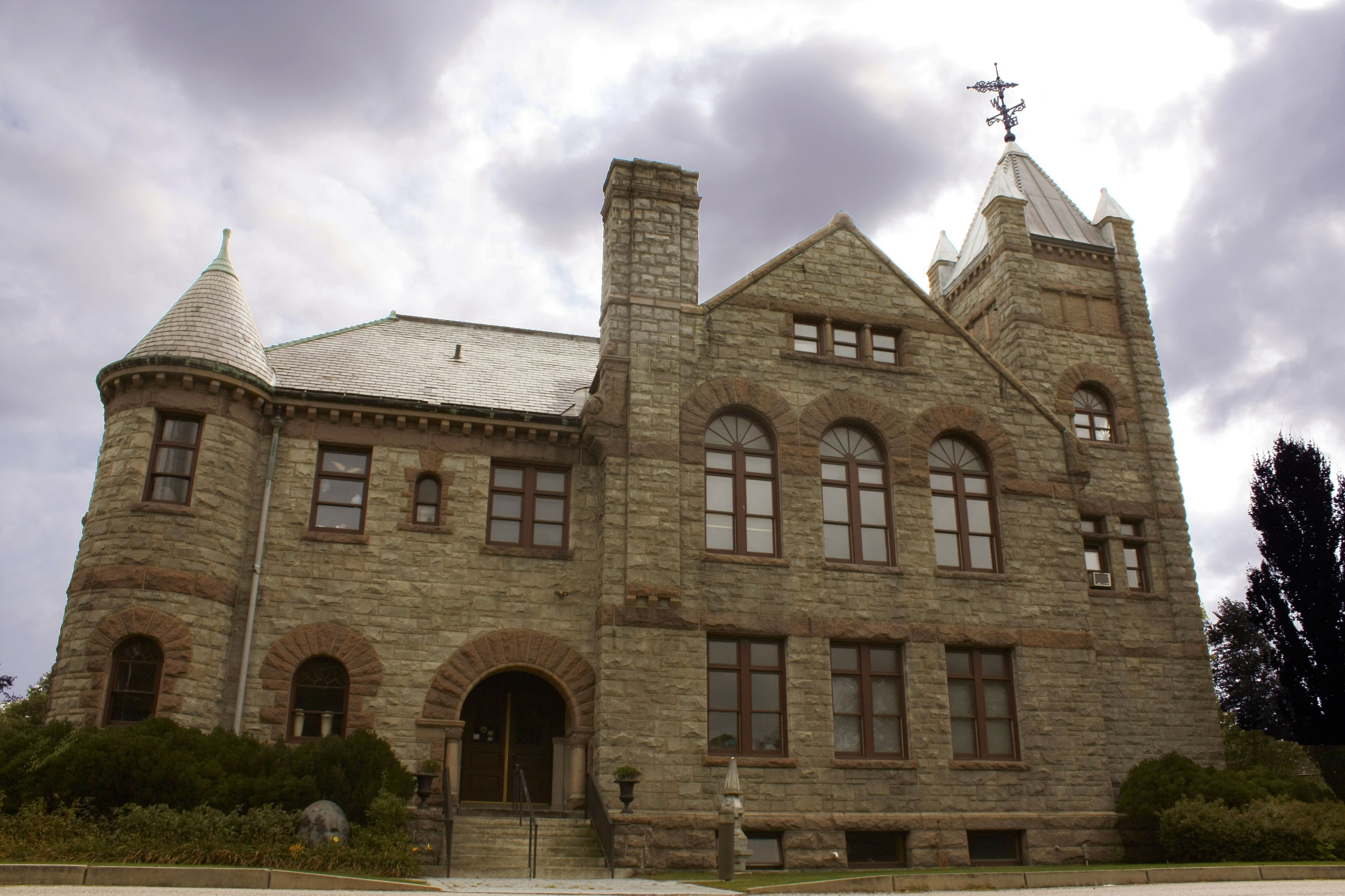 Washington County Court House